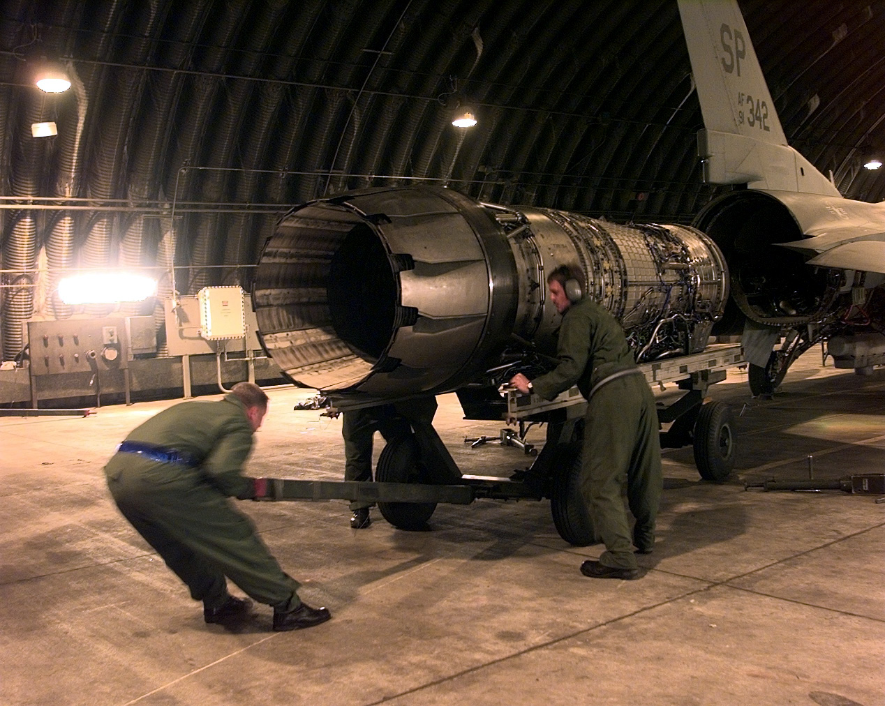 U.S. Air Force crew chiefs muscle an engine into position for installation in an F-16 Fighting Falcon on April 7, 1999, at Aviano Air Base, Italy. These crew chiefs from the 23rd Fighter Squadron, Spangdahlem Air Base, Germany, are keeping pace with the maintenance associated with the increased operating tempo of NATO Operation Allied Force. Operation Allied Force is the air operation against targets in the Federal Republic of Yugoslavia.